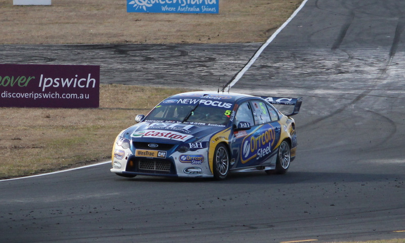 The Ford FG Falcon V8 Supercar of Mark Winterbottom at the Coates Hire Ipswich 300 on August 20, 2011.